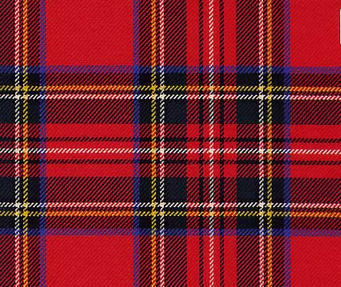 The Royal Stewart Tartan